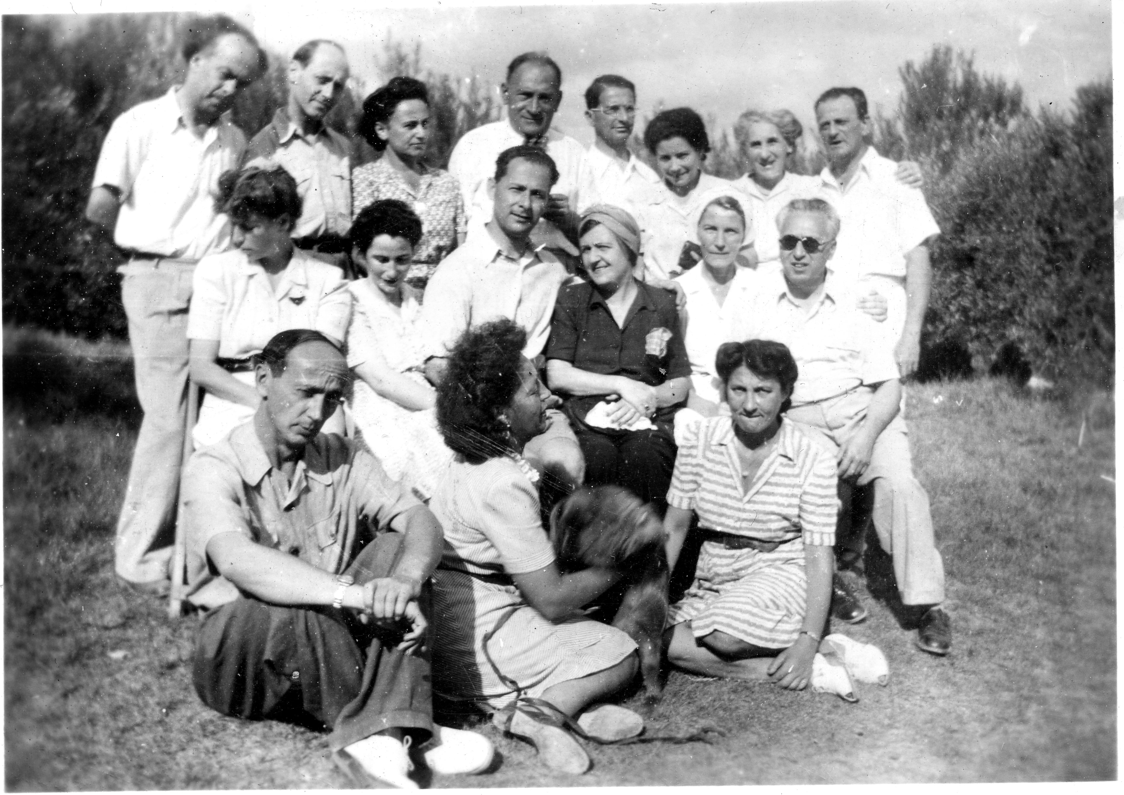 Artists, musicians and other intellectuals in Beth Daniel guest house, [Zikhron Ya'aqov], 1945. Upper row (from left): [Avraham Shlonsky], [Josef Tal], (-?), Michael Taube, Schiff, Mrs. Schiff, Ilse Liebenthal, Werner Liebenthal. Middle row: Pola Tal, Mrs. Schocken (?), Schocken (violist), Mrs. Taube (?), Mrs. Brgmann, Bergmann. First row: [Alexander Uriah Boskovich], Mrs. Ahuva Pickard, (-?)